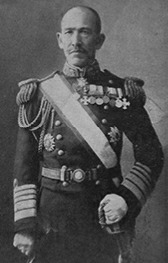 Fujii Kouichi was an Imperial Japanese Navy Full Admiral